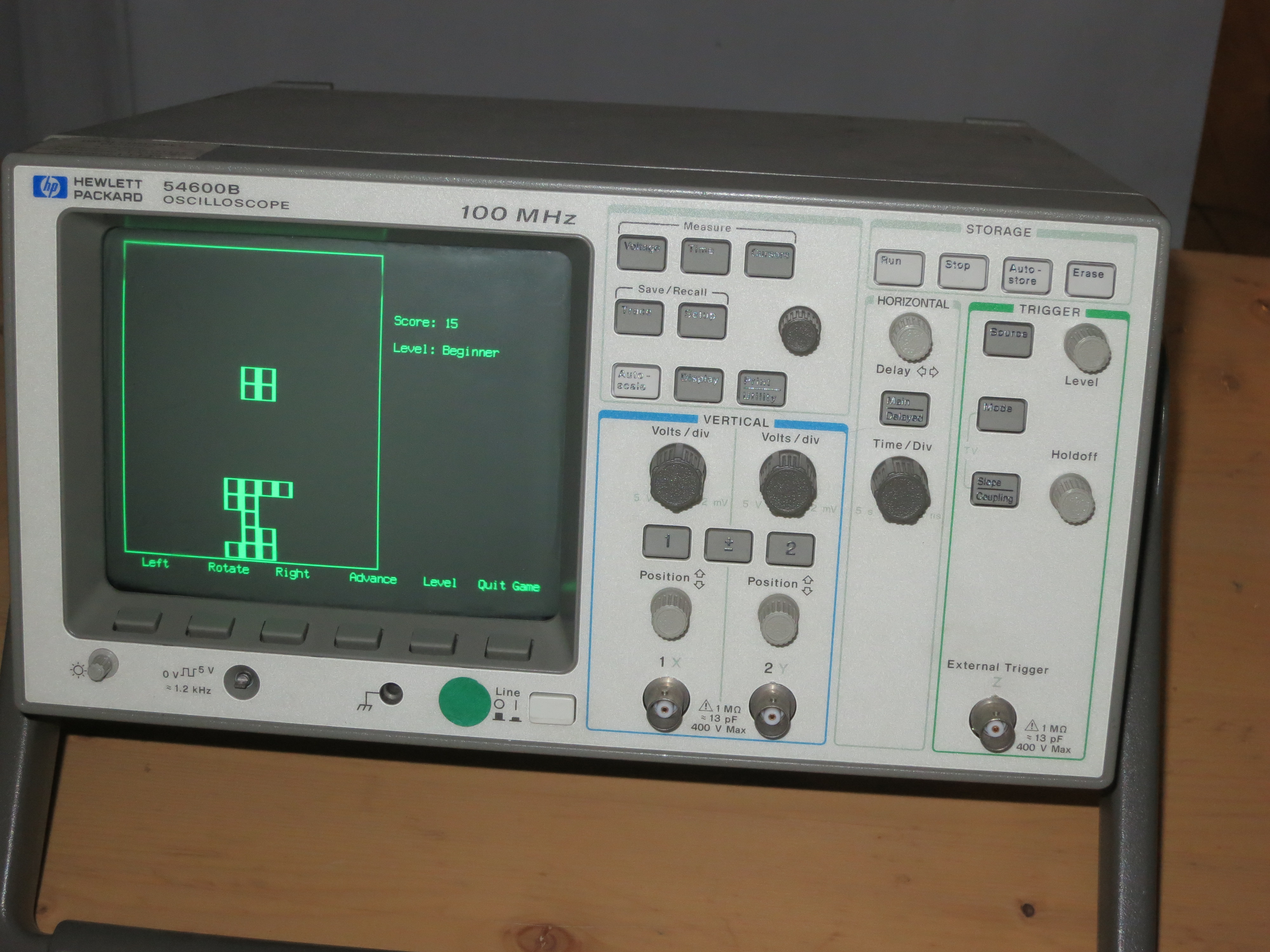 Not so much a hack as a demonstration of an easter egg, but pretty cool nonetheless.